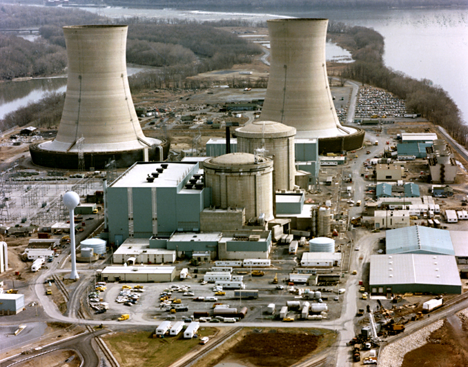 Color photograph of the Three Mile Island nuclear generating station, which suffered a partial meltdown in 1979. The reactors are in the smaller domes with rounded tops (the large smokestacks are just cooling towers).